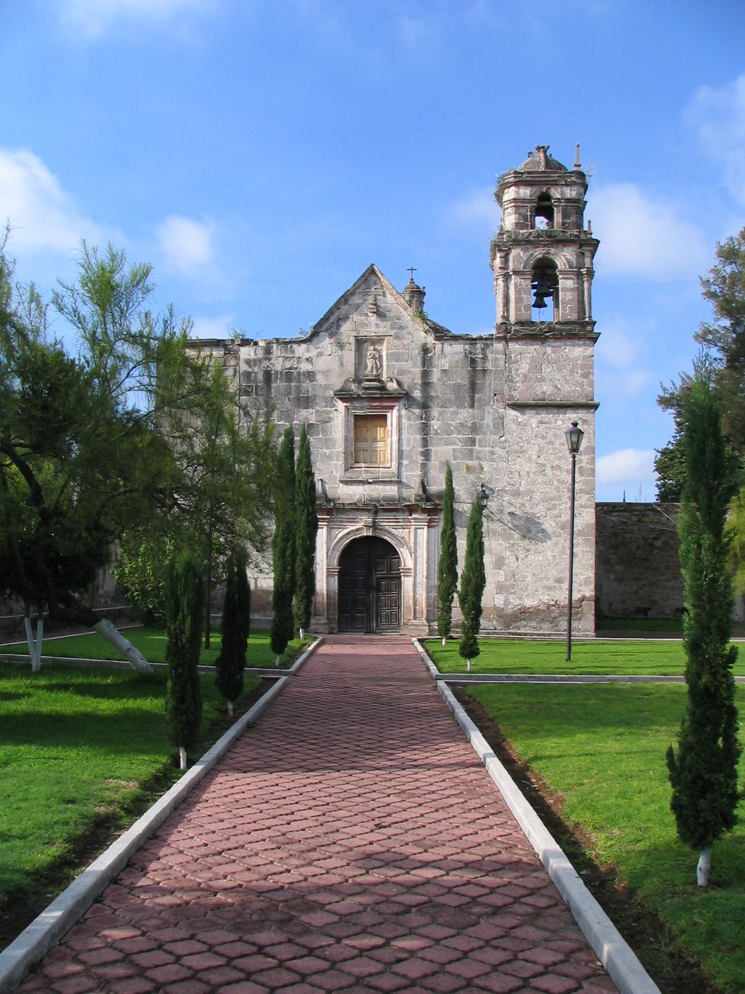 This temple, side by side with the monastery, was also closed to visitors.